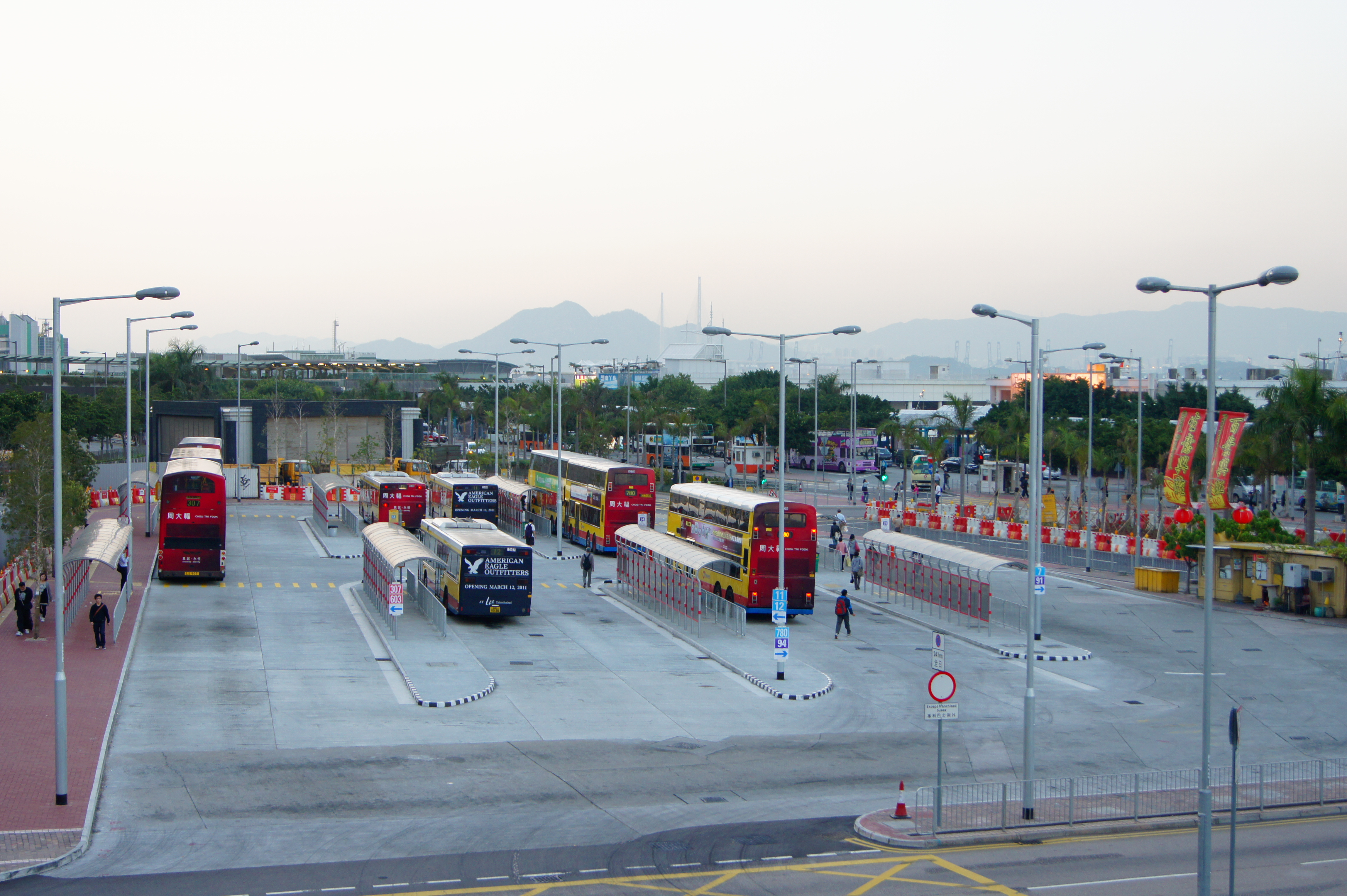 Central (Ferry Piers) Bus Terminus